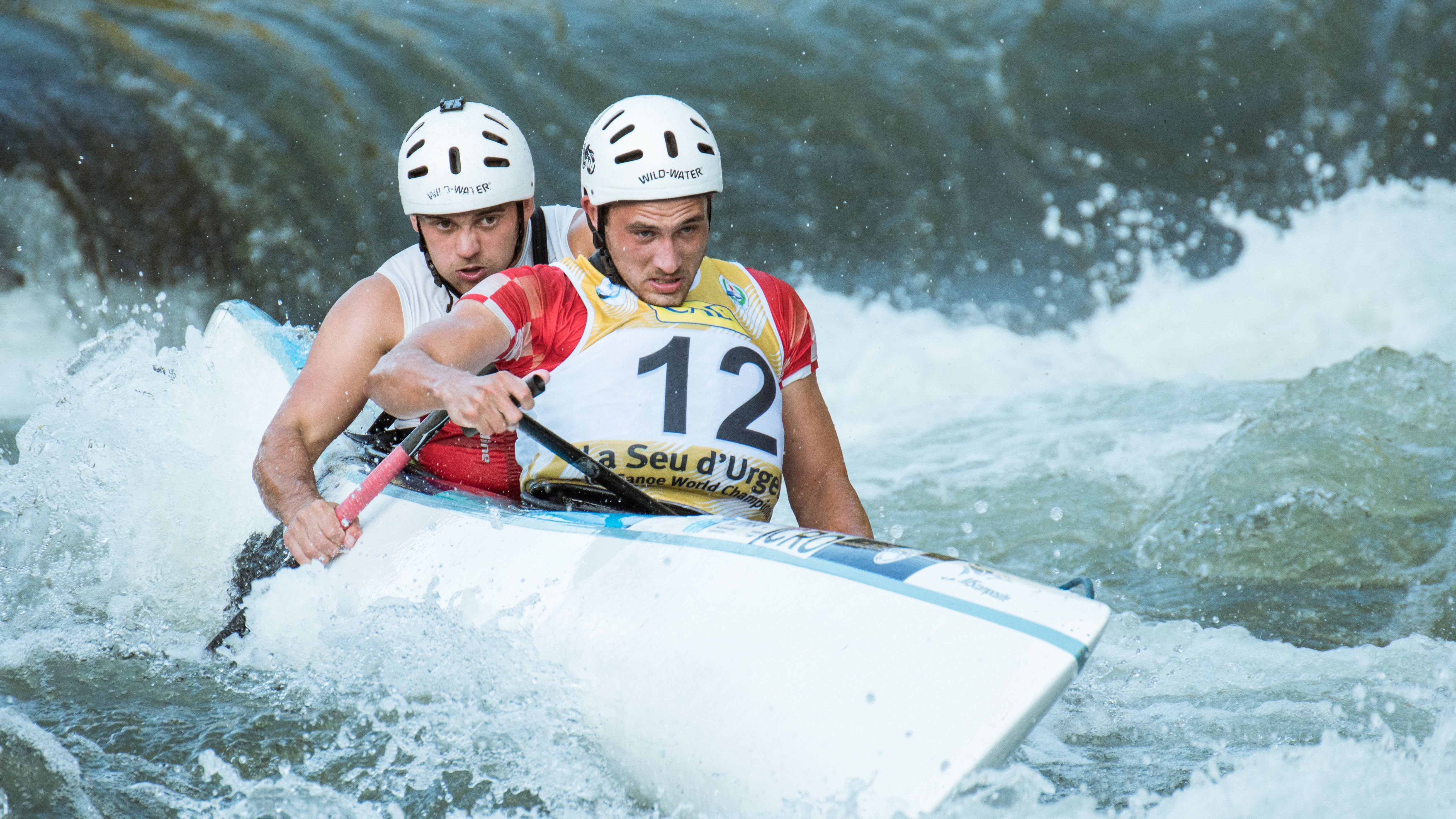 Luka Obadić and Ivan Tolić during the 2019 Canoe Wildwater World Championships in La Seu d'Urgell, Spain.